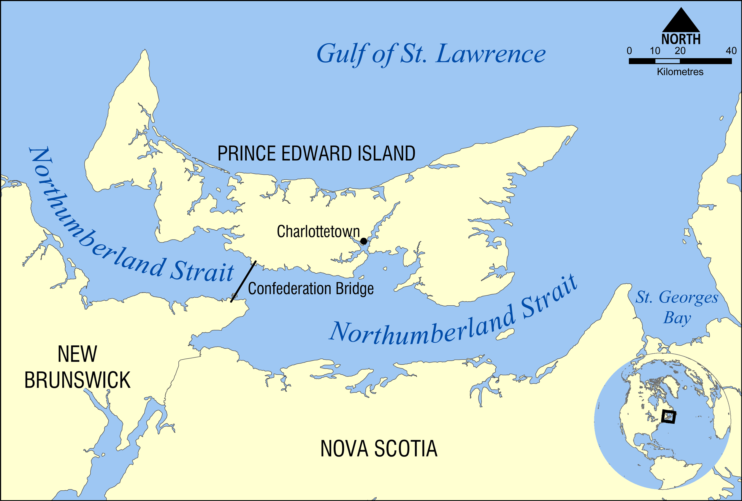 This map shows the location of the Northumberland Strait in the Gulf of St. Lawrence, separating the Canadian provinces of Prince Edward Island and New Brunswick.